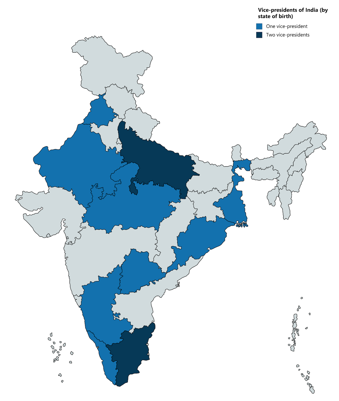 Vice-Presidents of India (by state of birth)